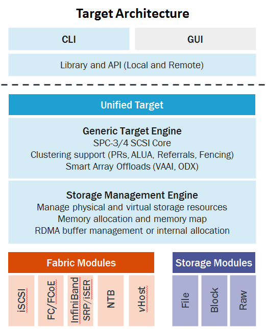 LIO Architecture diagram